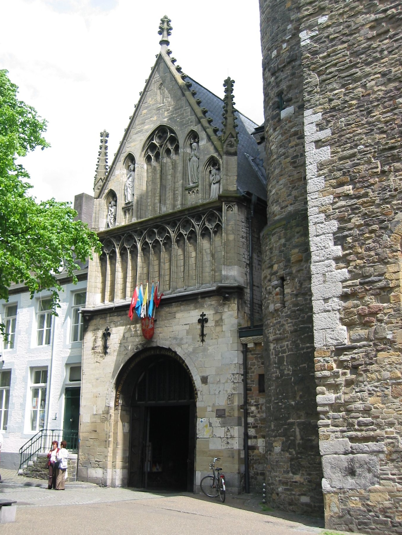 Basiliek van Onze Lieve Vrouw ten Hemelopneming, 2005:05:21 14:12:25 (Early construction is Romanesque and later is Gothic).